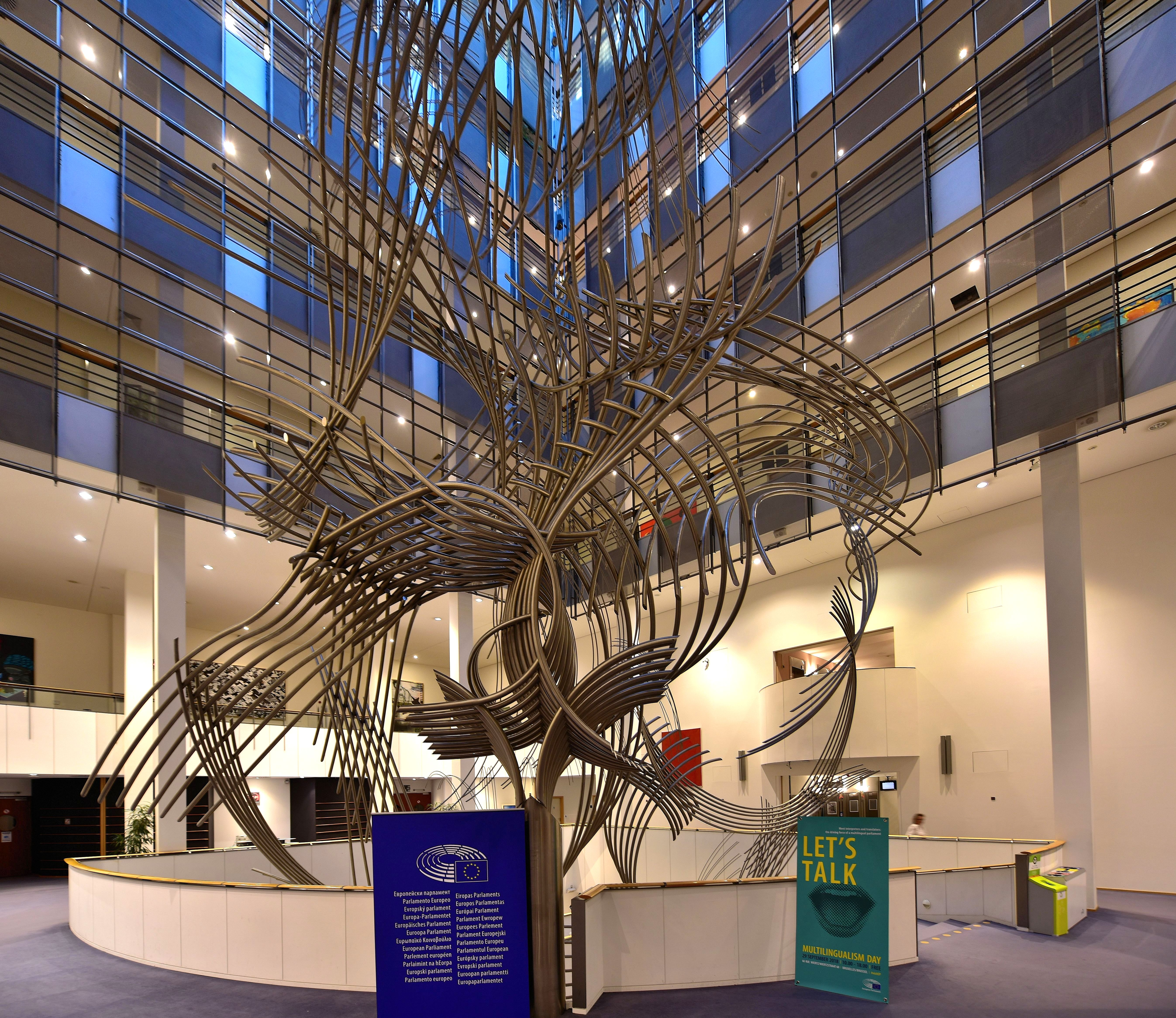 European Parliament, Interior of the Paul-Henri Spaak building in Brussels